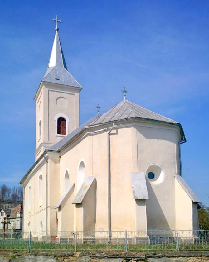 Lutheran church in Arcalia, Bistrița-Năsăud county, Romania